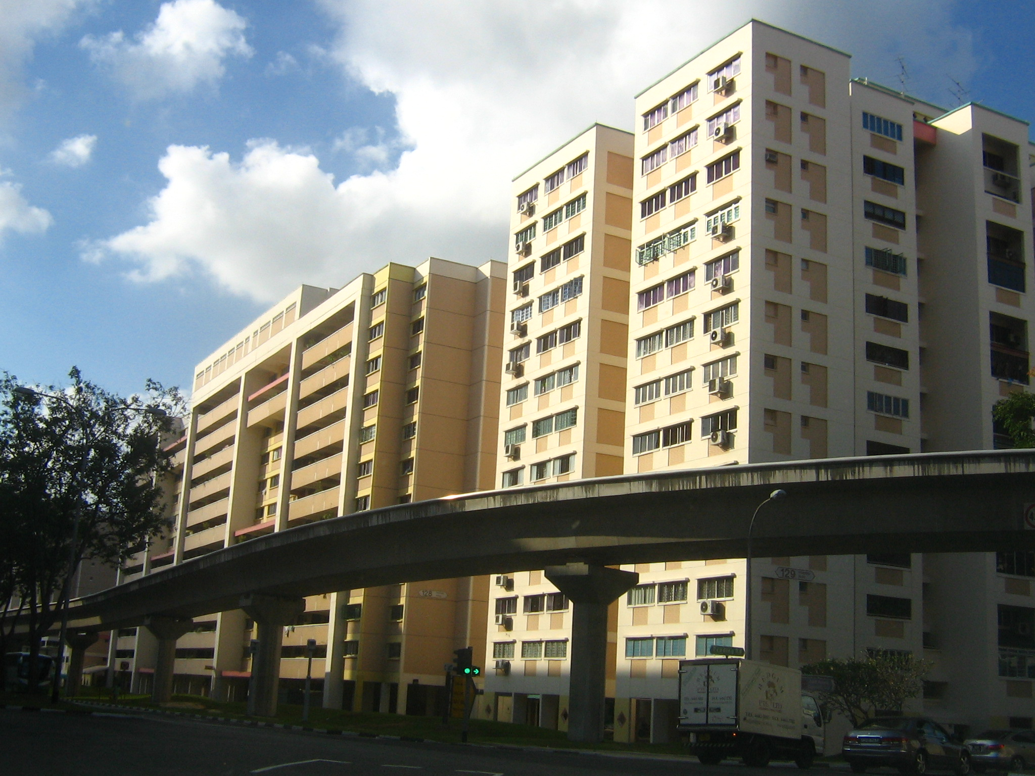 A scene in Bukit Panjang New Town